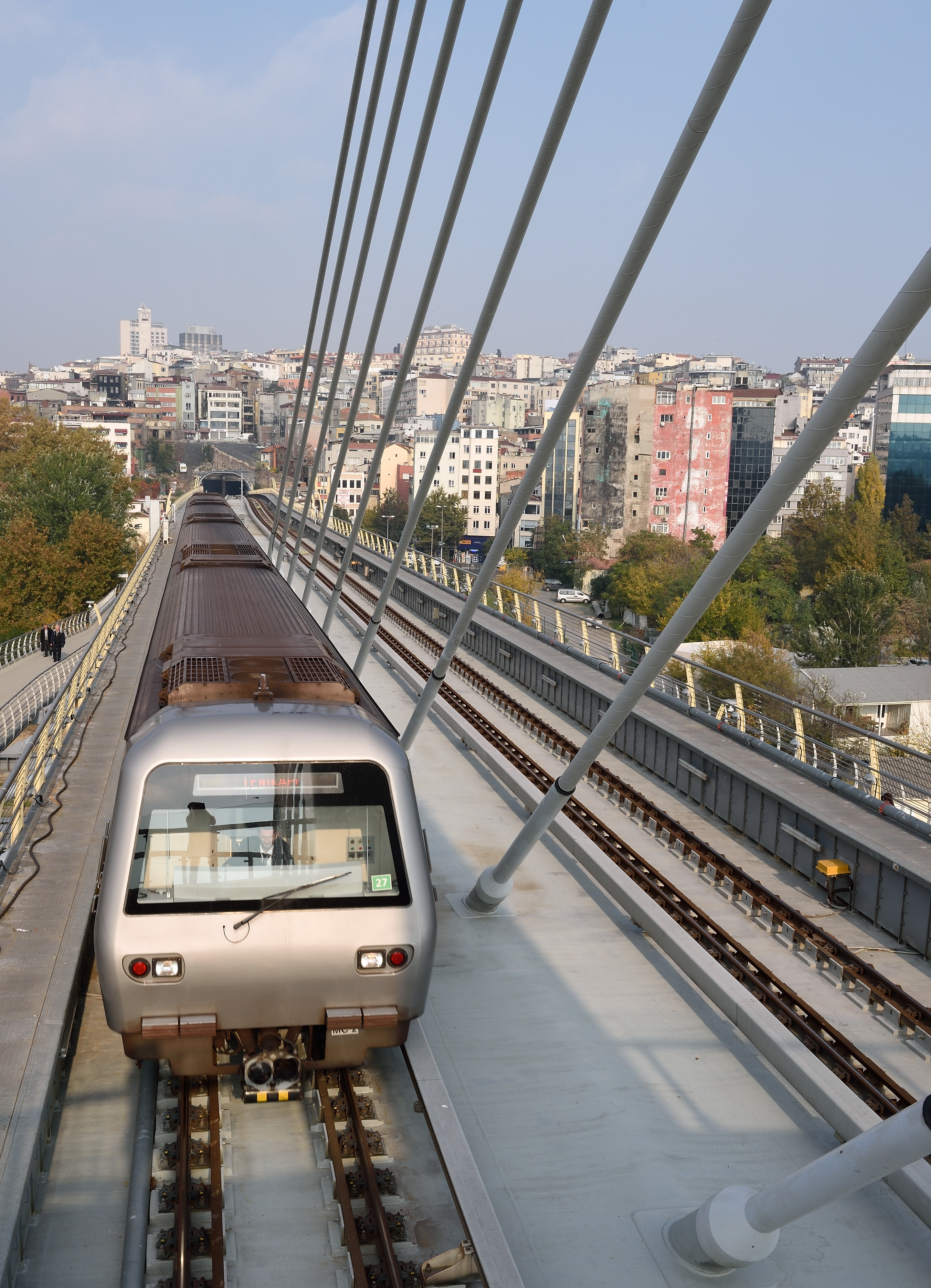 Yenikapi bound M2 Istanbul Metro at Haliç station